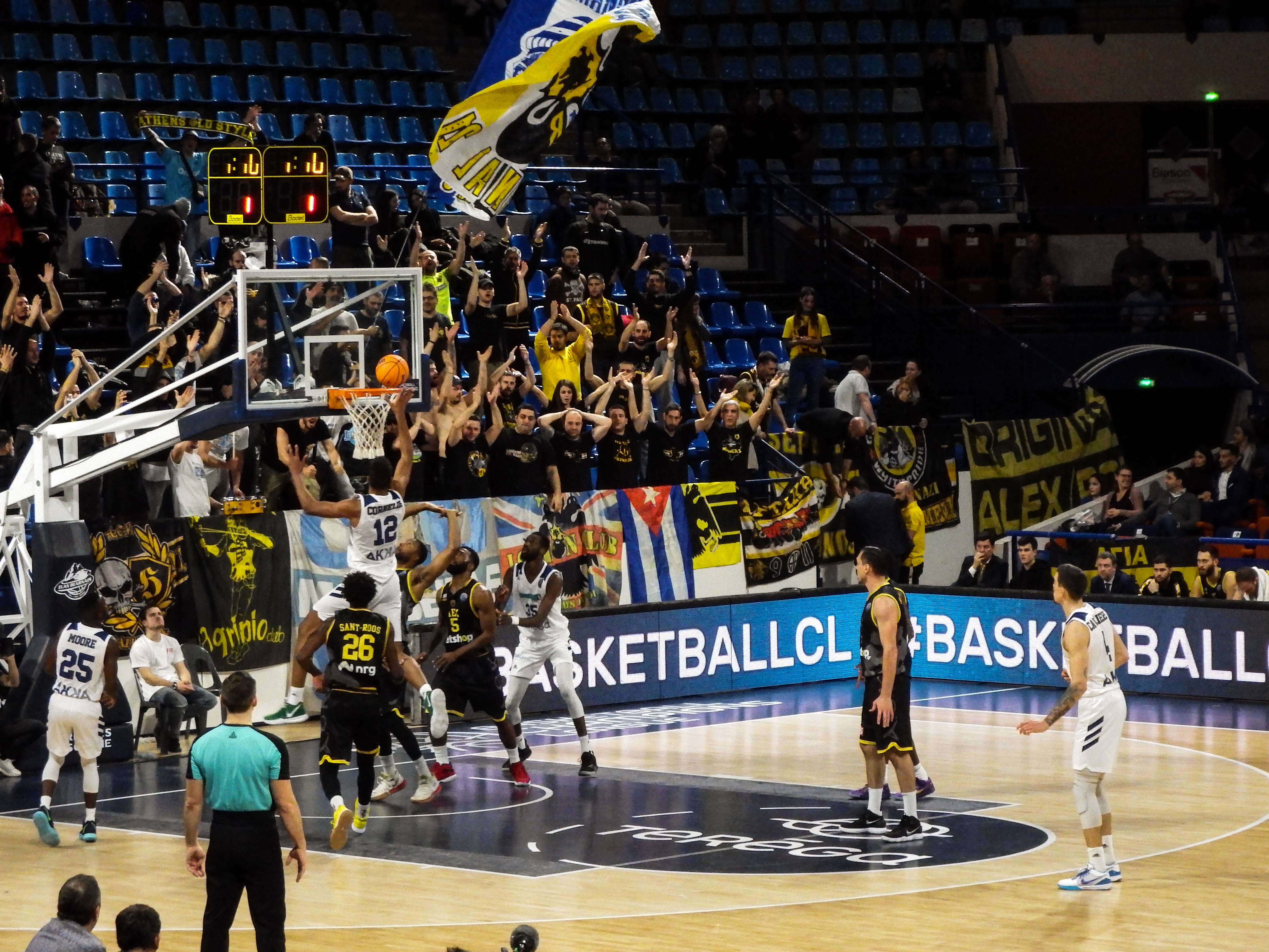 2019–20 Basketball Champions League — 10 December 2019, Palais des Sports de Pau. Match between: Élan Béarnais Pau-Lacq-Orthez — AEK Athens B.C.